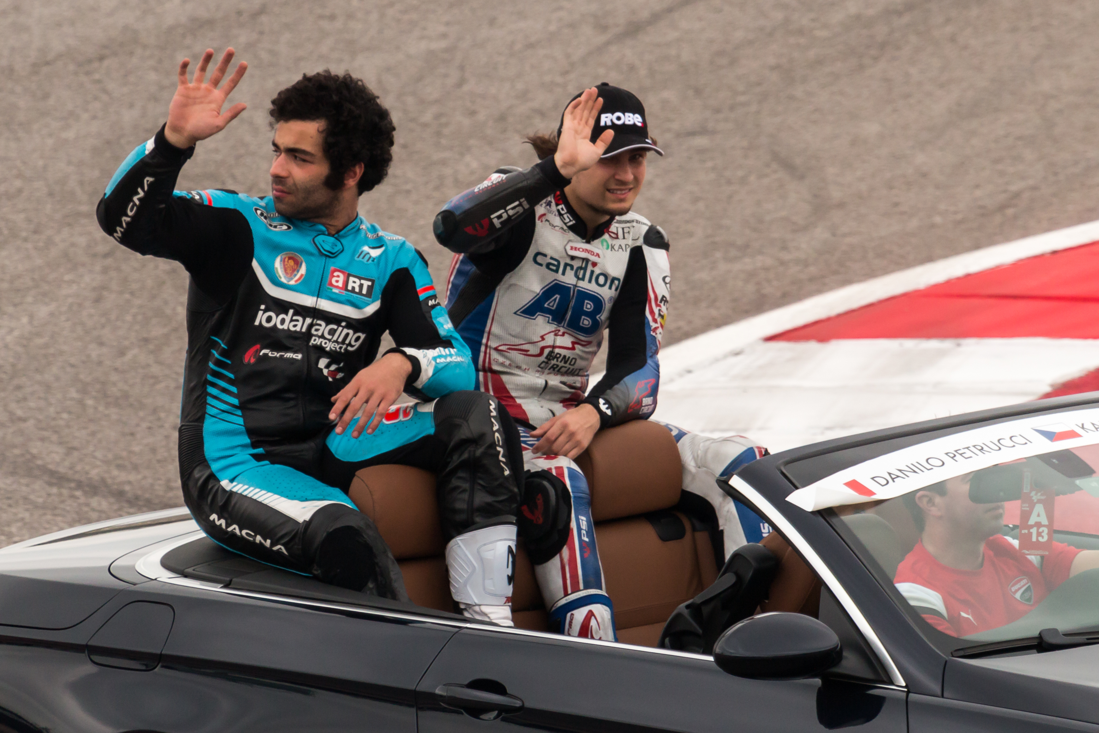 Motorcycle road racer Danilo Petrucci (left) and Karel Abraham (right) at the 2014 Grand Prix of the Americas.